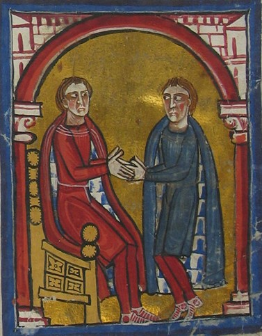 Liber Feudorum Ceritanie - The image shows the taking of an oath of loyalty by Dalmau, Viscount of Berguedà, bowing slightly, to Count Wilfred I of Cerdanya, sitting on his throne.